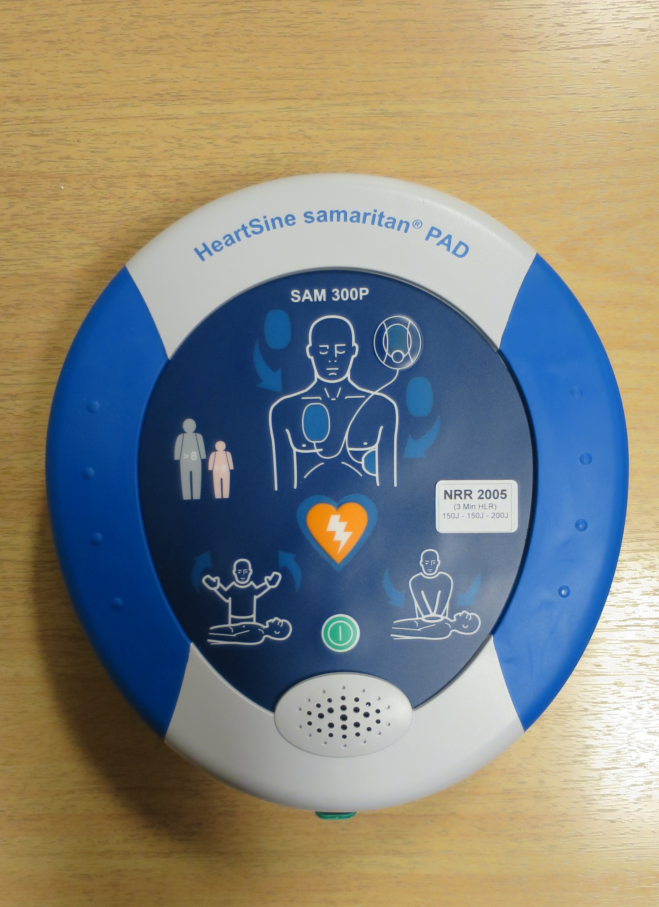 Photo of a commonly used defilibrator at a workplace in Norway, this is on board a coastal ferry